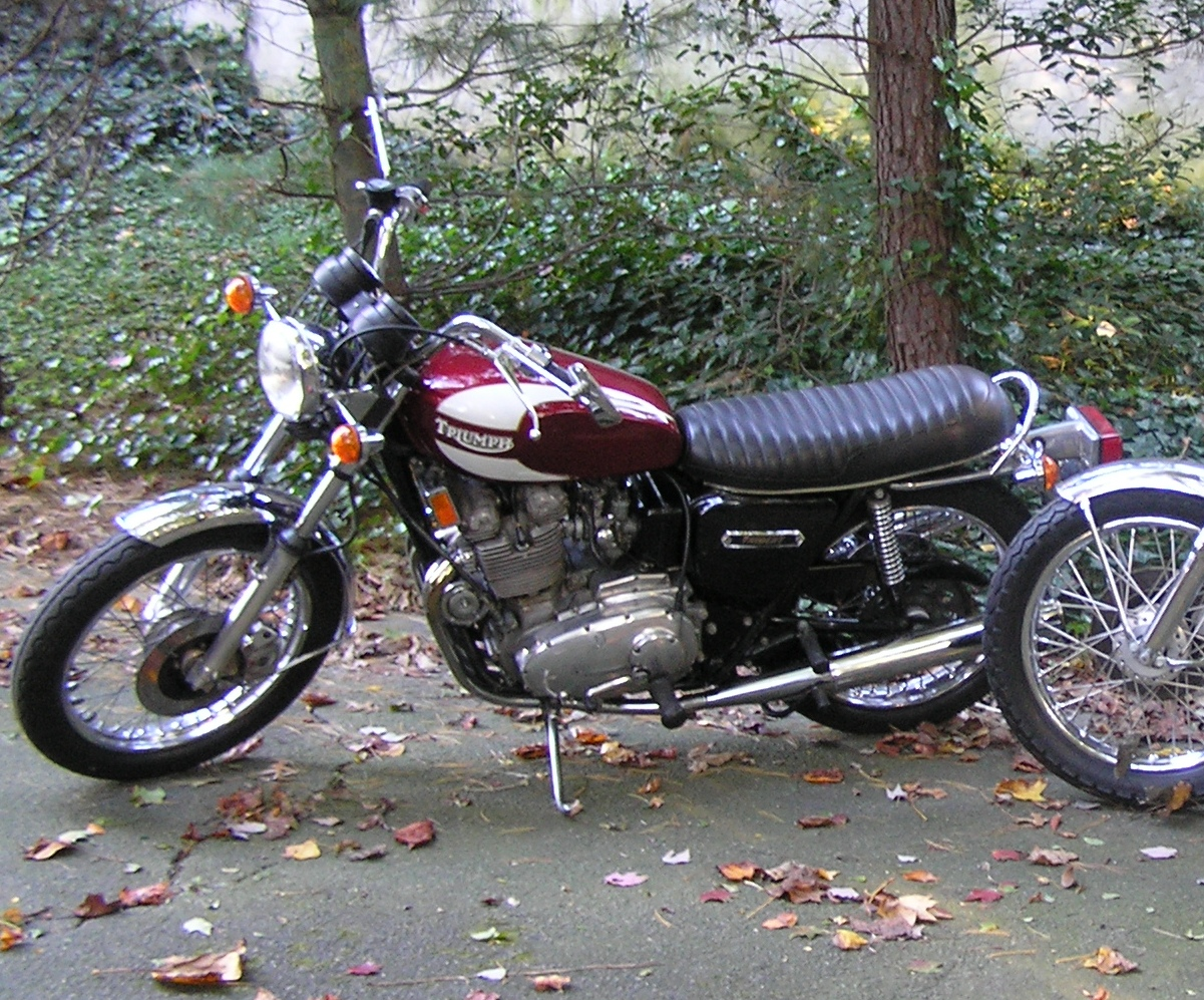 1975 Trident T160 Motorcycle